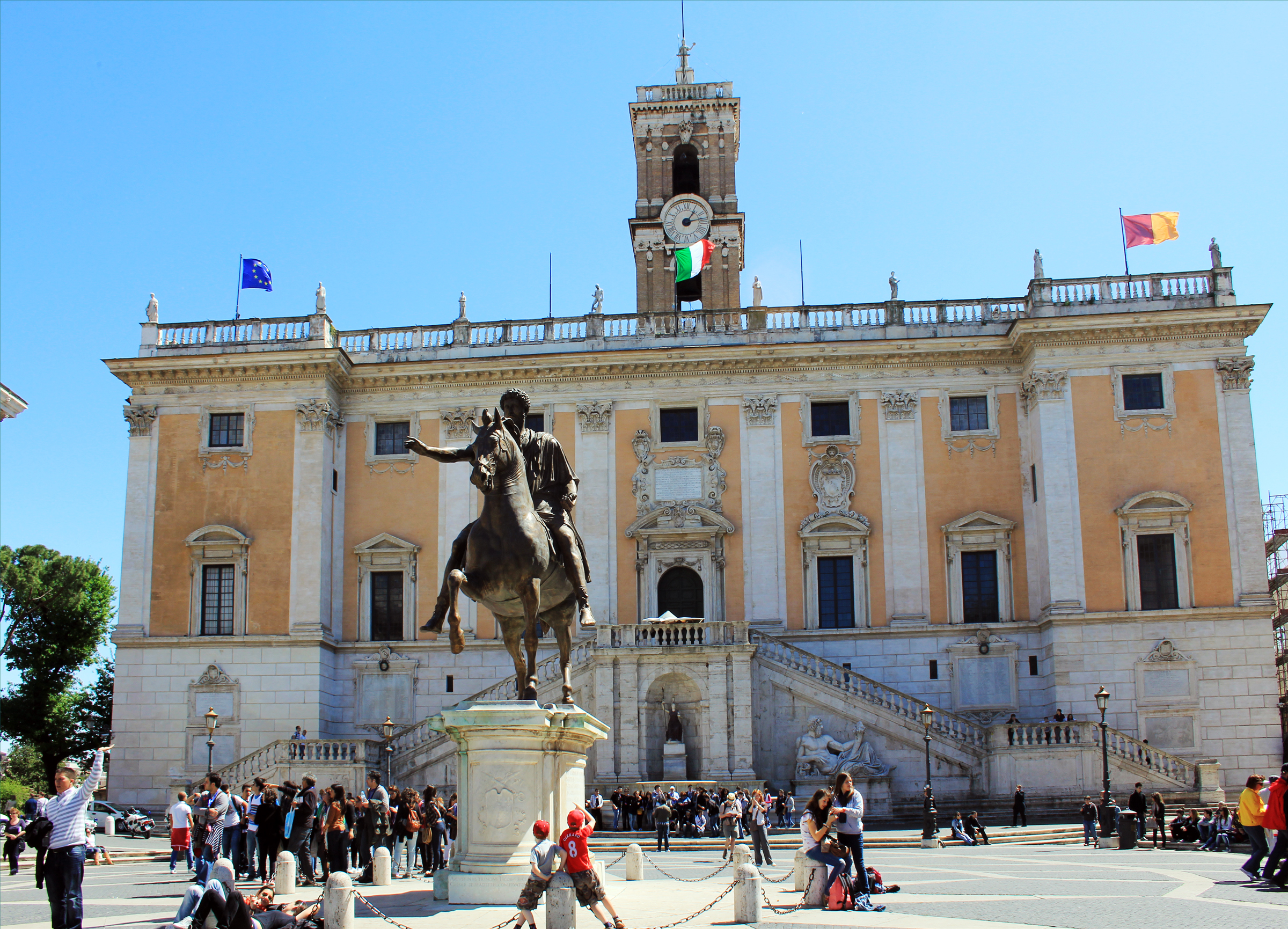 Palazzo dei Senatori (Palace of senators) Rome, Italy